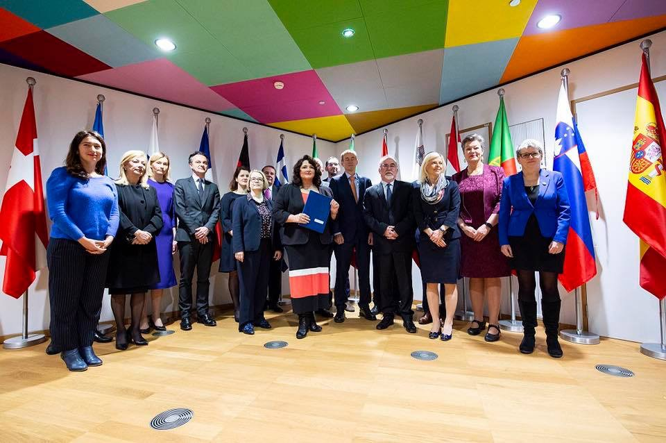 Ministers and permanent representatives of the signatory member states (Europa building, Brussels)